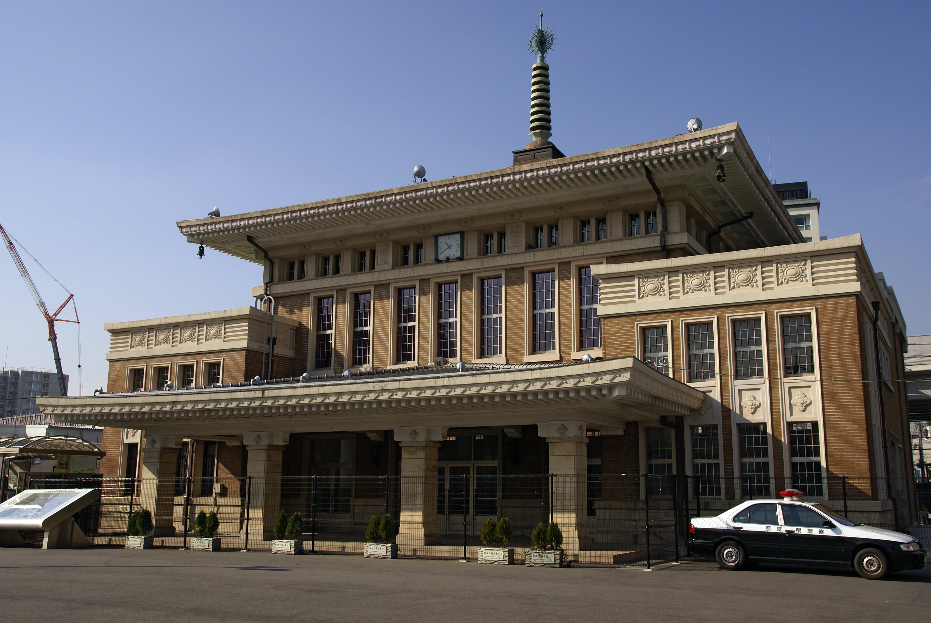 Old JR Nara Station in Nara, Nara prefecture, Japan